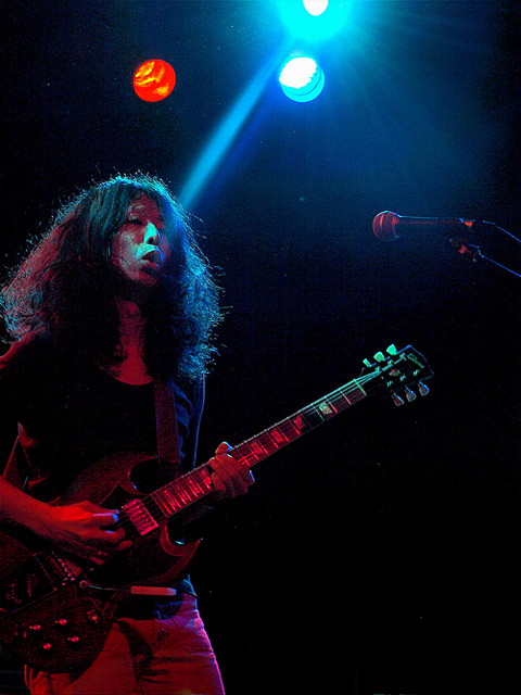 Yura Yura Teikoku in Music Hall of Williamsburg Brooklyn, NY, US, 19 October 2008